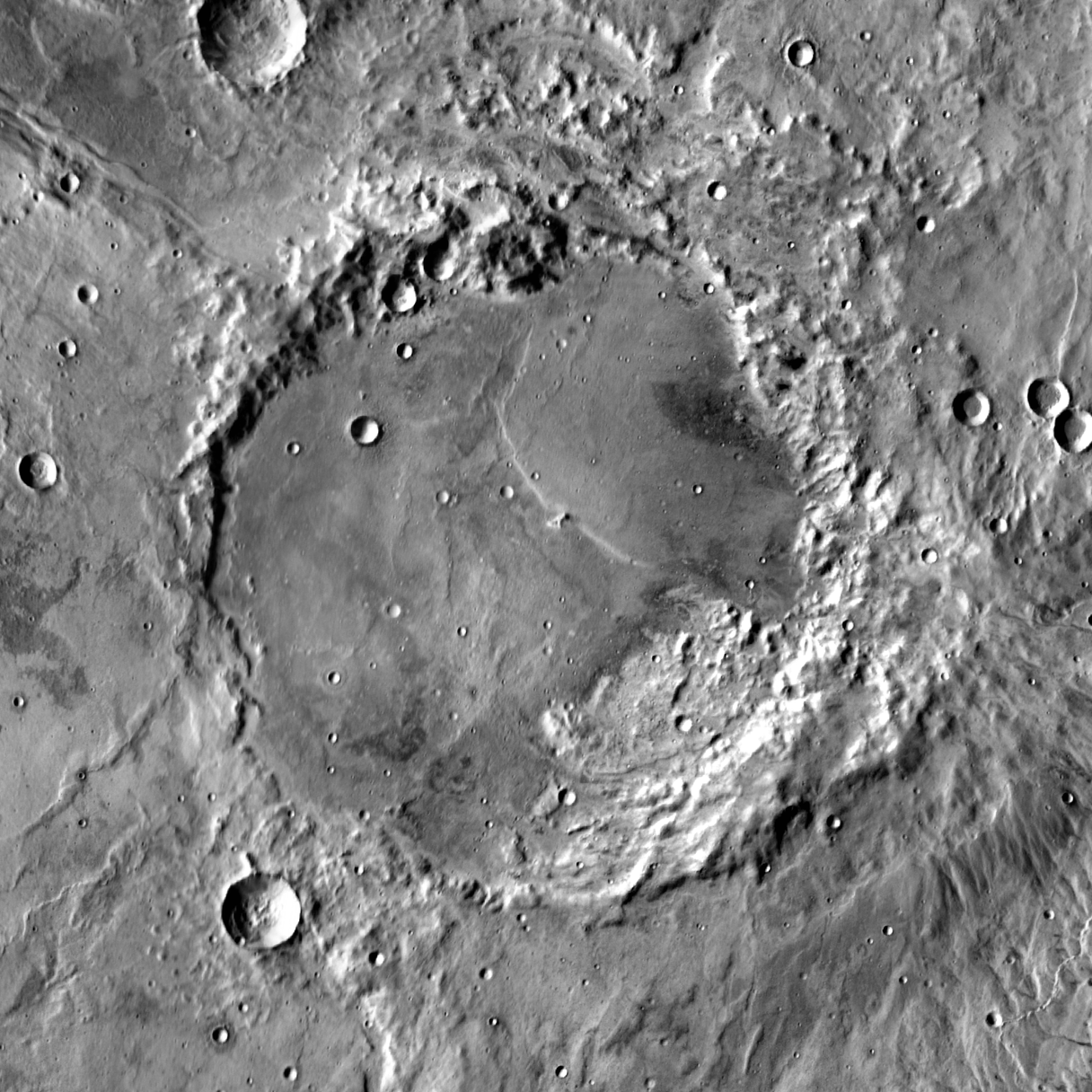 Crater Ibragimov on Mars. A daytime infrared image mosaic from the Thermal Emission Imaging System (THEMIS) instrument of the 2001 Mars Odyssey spacecraft. Width of the image is 140 km.